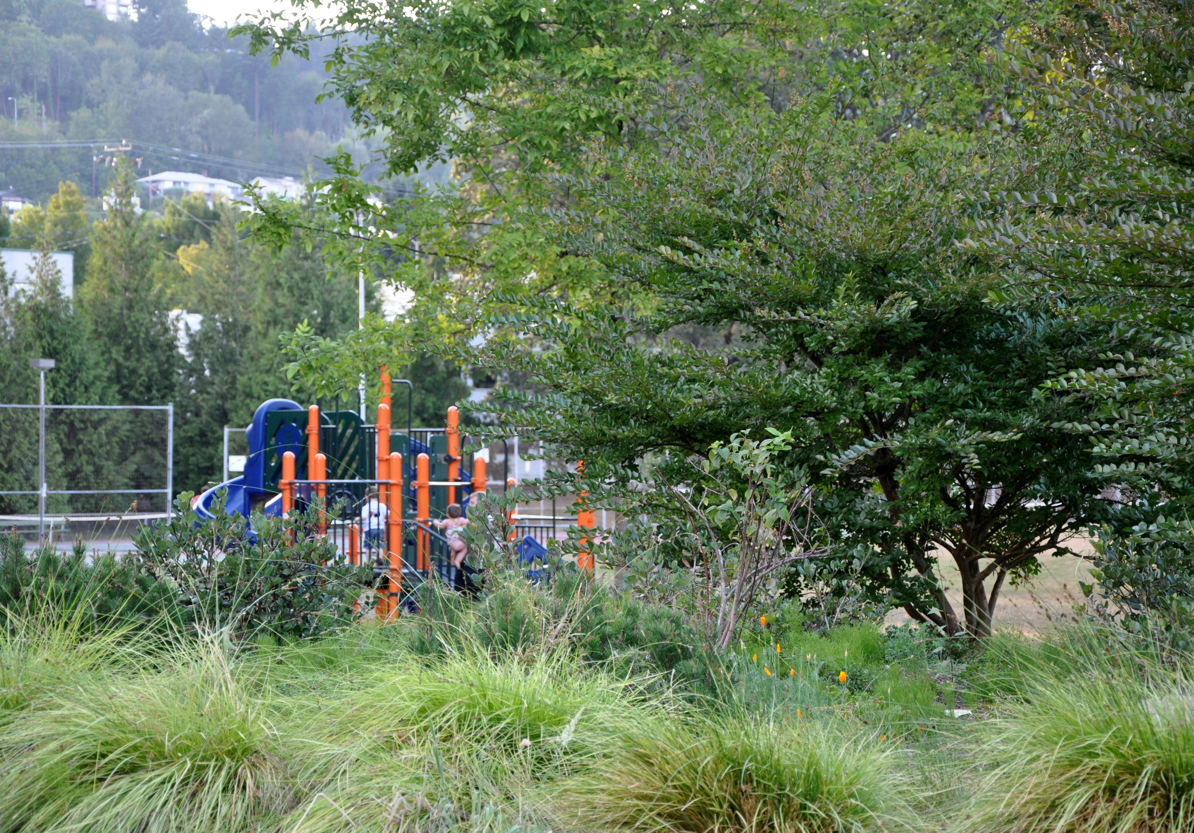 Willamette Park in southwest Portland, Oregon, in the United States. Tualatin Mountains (West Hills) in the background.